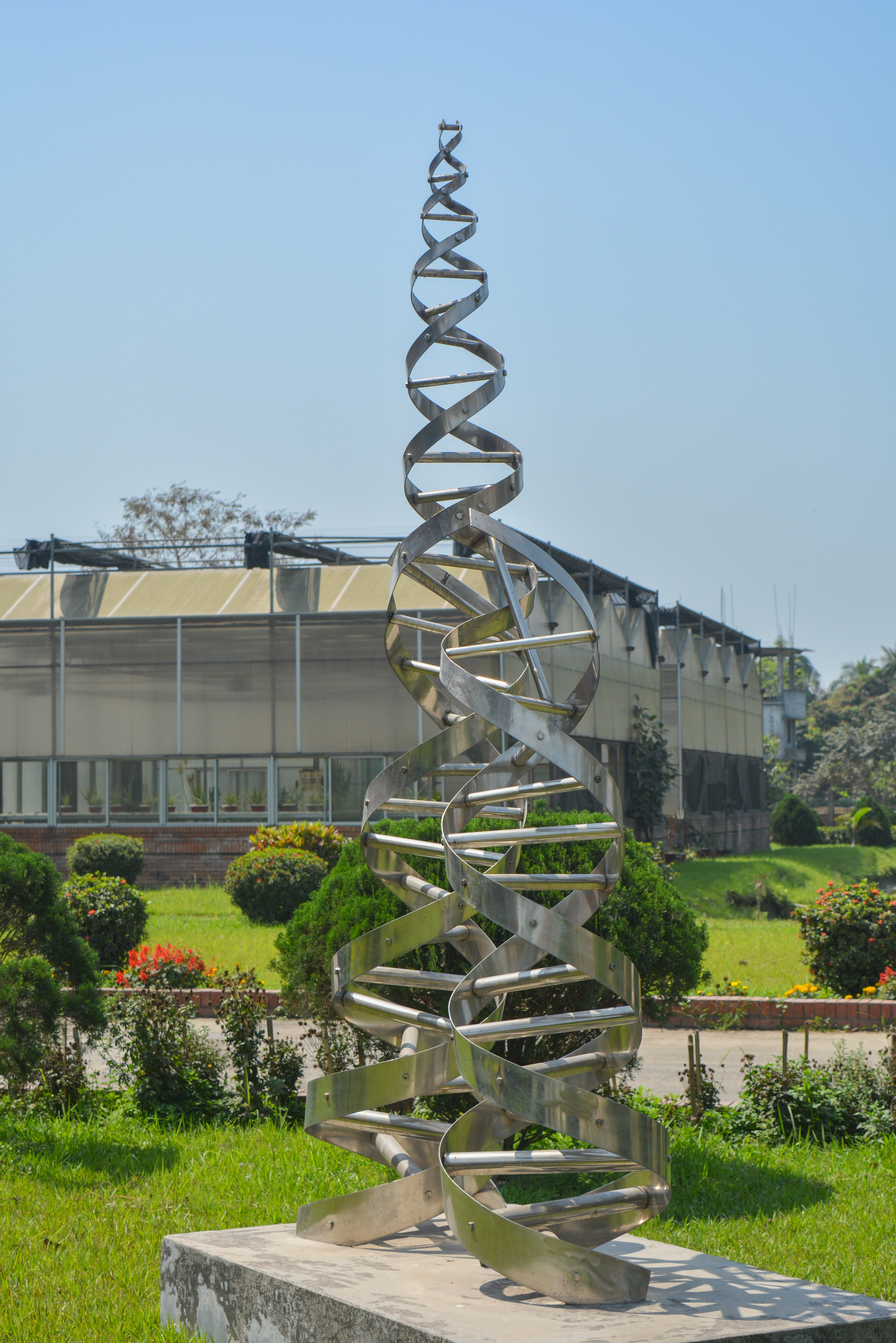 National Institute of Biotechnology (NIB) is a governmental institute in Bangladesh under the Ministry of Science and Technology. It was established in 1999 by the government as part of an ADP( agricultural development project )project to intensify the biotechnological research in the country. The main objective of the institute is to coordinate the biotechnological researches carried out throughout the country as well as conducting its own research programs in different areas of biotechnology. The institute is also responsible to create skilled manpower for biotechnology and genetic engineering.